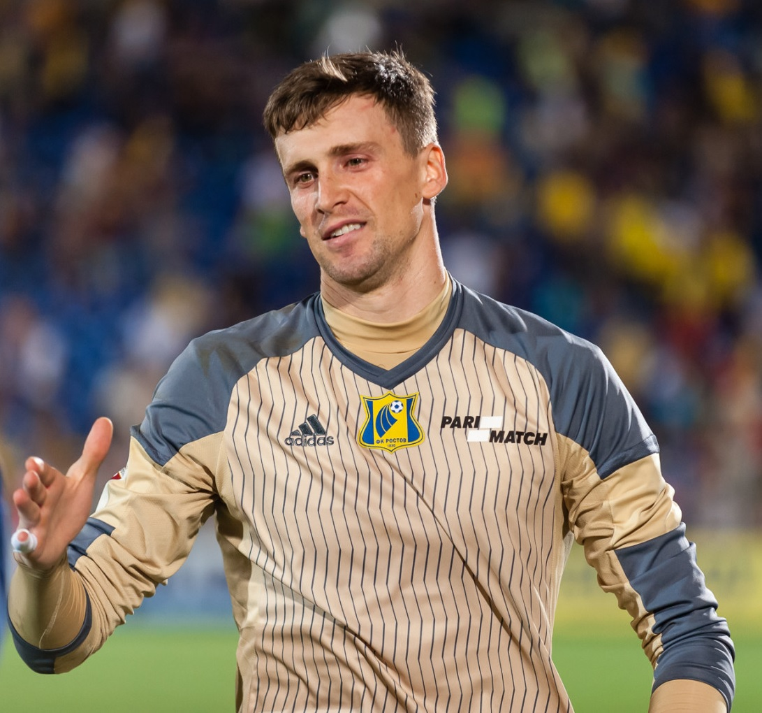 Sergey Pesyakov with FC Rostov in a game against FC Dynamo Moscow.